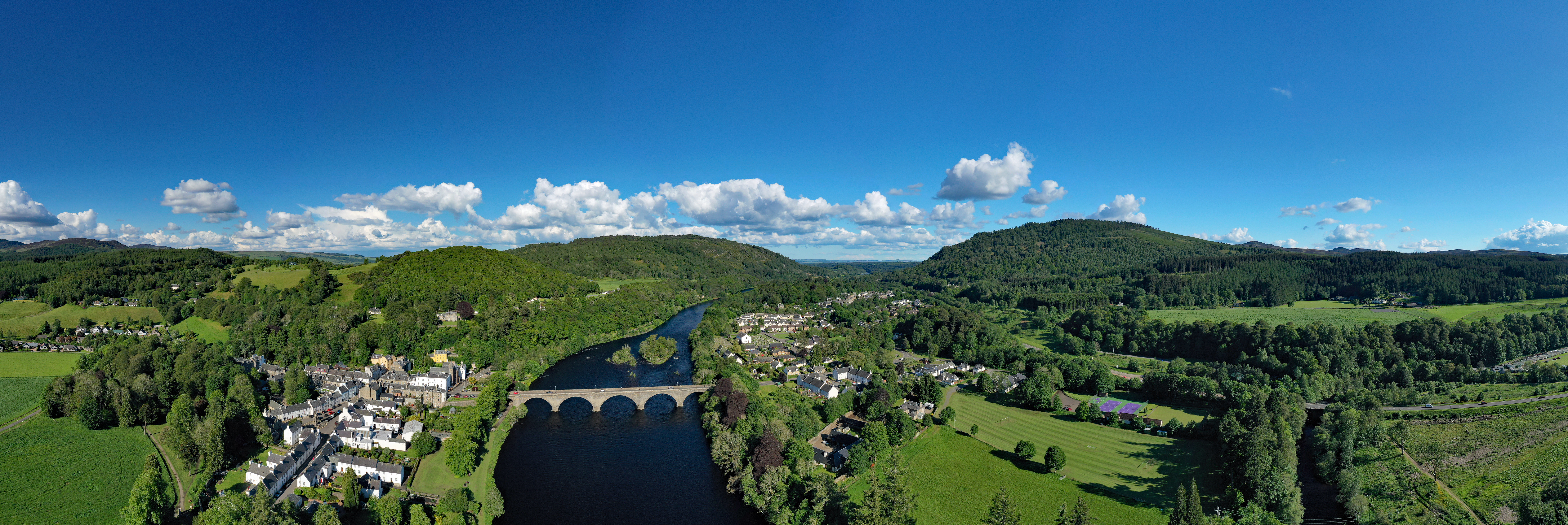 Dunkeld (aerial view, Perth & Kinross, Scotland, UK)